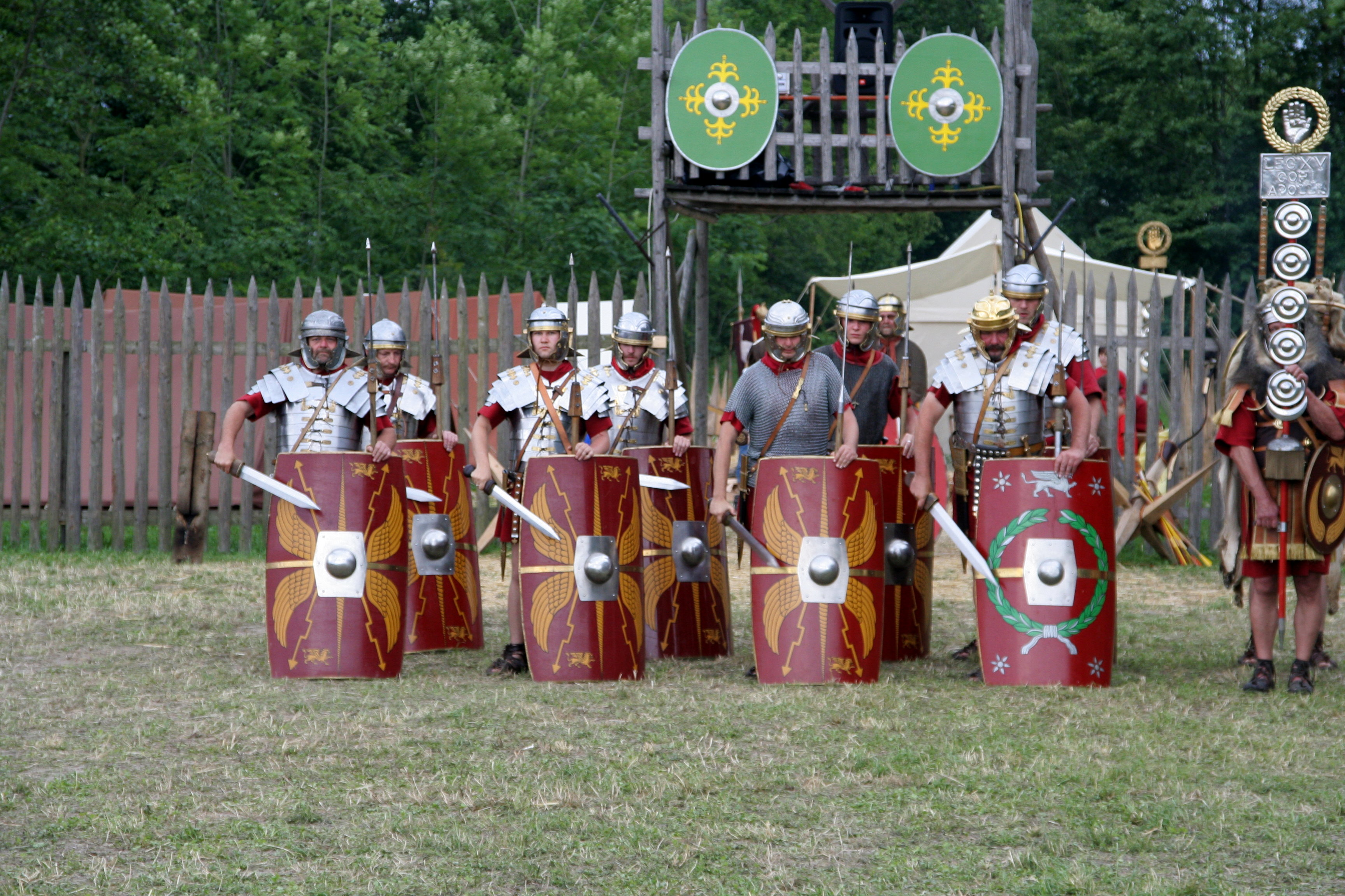 Roman soldiers 70 a.C. The background should not show a real roman fortress. Photographed by myself during a show of Legio XV from Pram, Austria